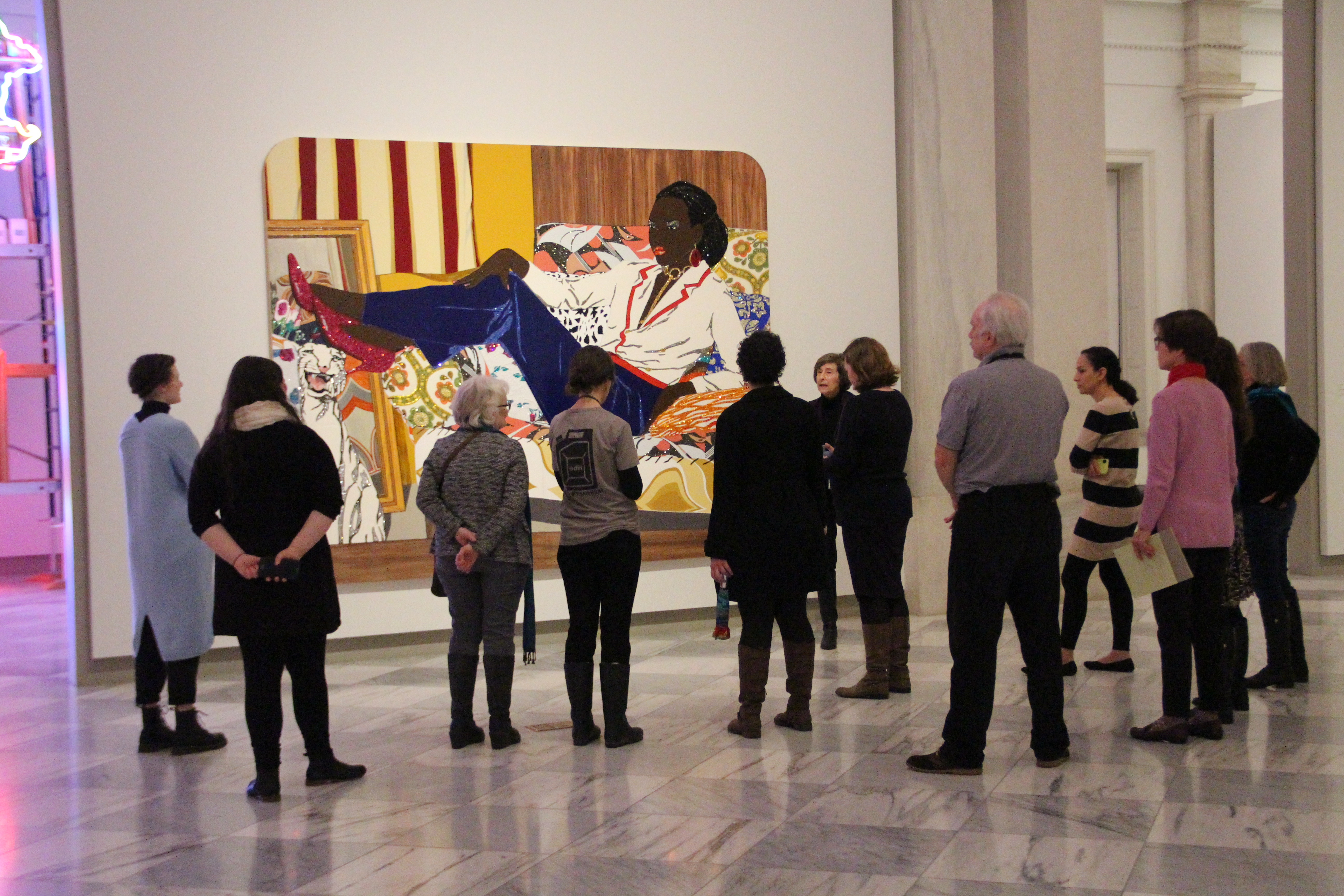 Art and Feminism Wikipedia-Edit-A-Thon at SAAM; backstage pass: "Portrait of Mnonja" by Mickalene Thomas